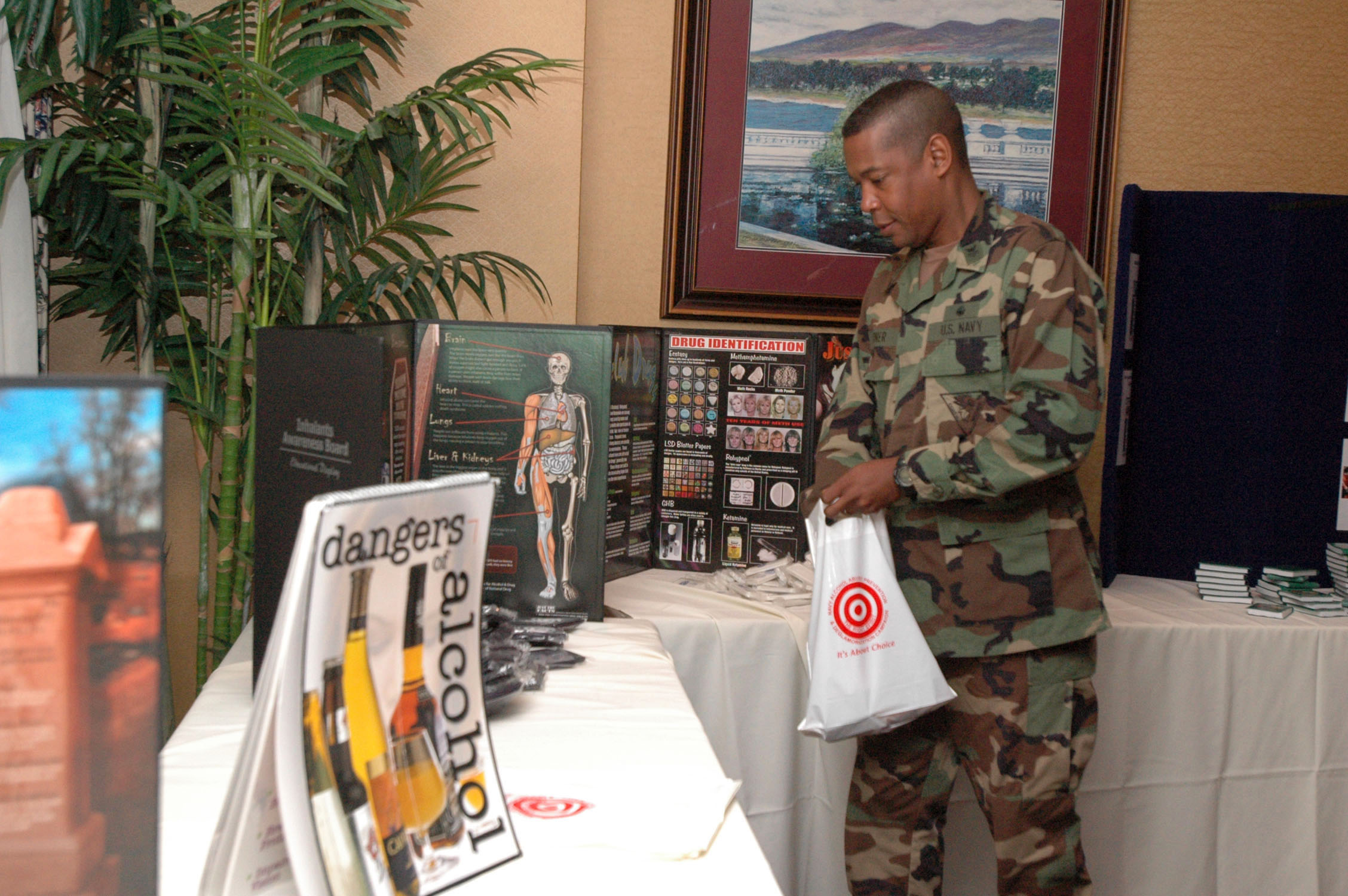 Virginia Beach, Va. (Nov. 16, 2006) - Master-at-Arms 1st Class Michael Turner of Mobile Security Squadron Two (MSS-2) collects information at the Substance Abuse Prevention Summit held at the Snug Harbor Officer's Club on board Naval Amphibious Base Little Creek. The Summit was designed to support fleet readiness by reducing and preventing alcohol abuse and enforcing the Navy's zero tolerance policy for drugs and alcohol. U.S. Navy photo by Mass Communication Specialist Seaman Kiona Mckissack (RELEASED)